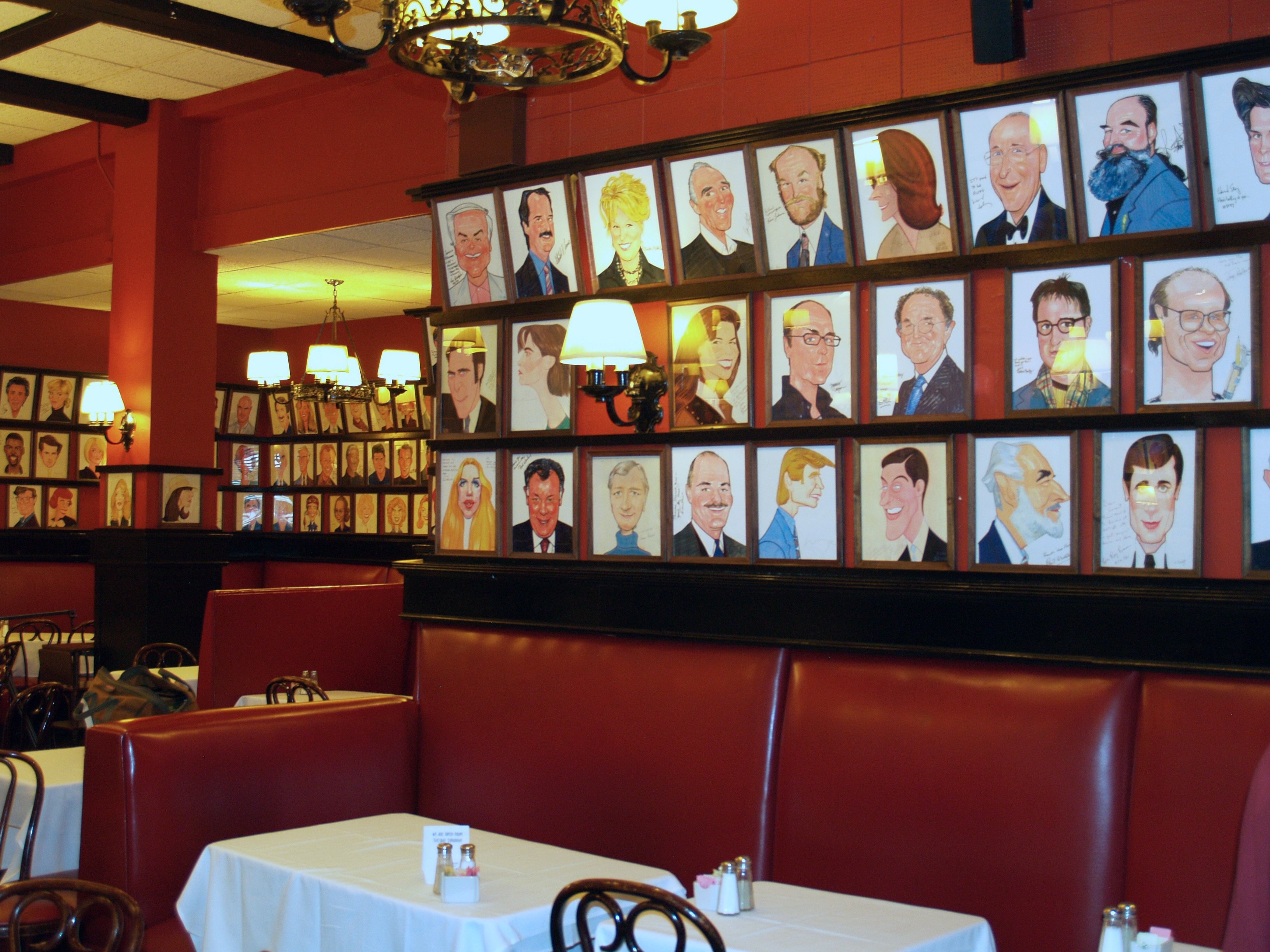 The ground floor interior of Sardi's restaurant in West 44th Street in Manhattan's theater district, as seen on September 24, 2013. Lining the walls of the restaurant are the celebrity caricatures for which the restaurant is famous, and which have been seen in numerous films and TV shows. This photo was created by Luigi Novi. It is not in the public domain, and use of this file outside of the licensing terms is a copyright violation.